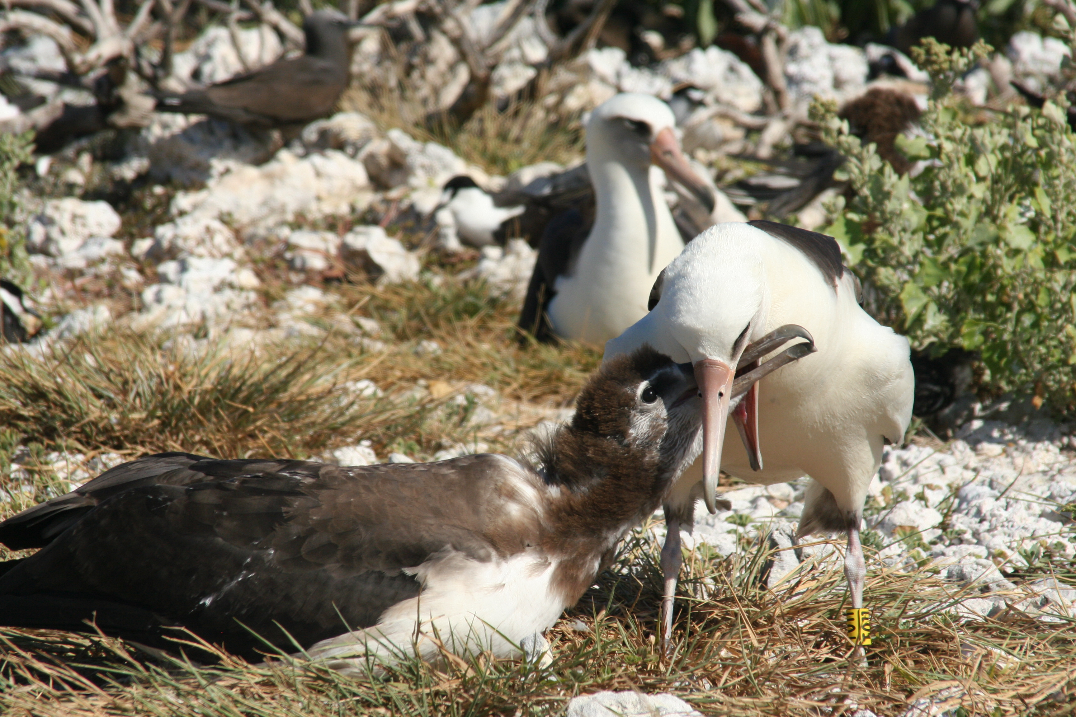 Laysan Albatross Phoebastria immutabilis feeding its chick in the typical manner of all petrels.